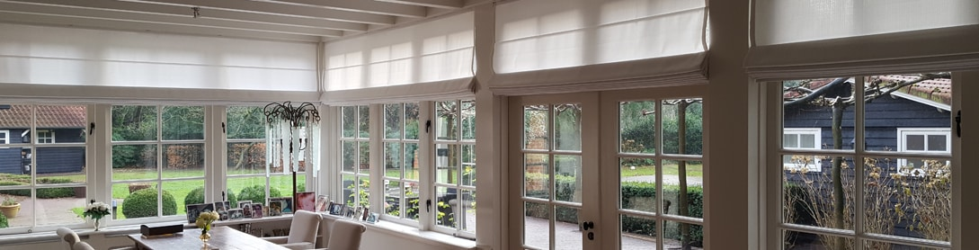 Roman shade modern look